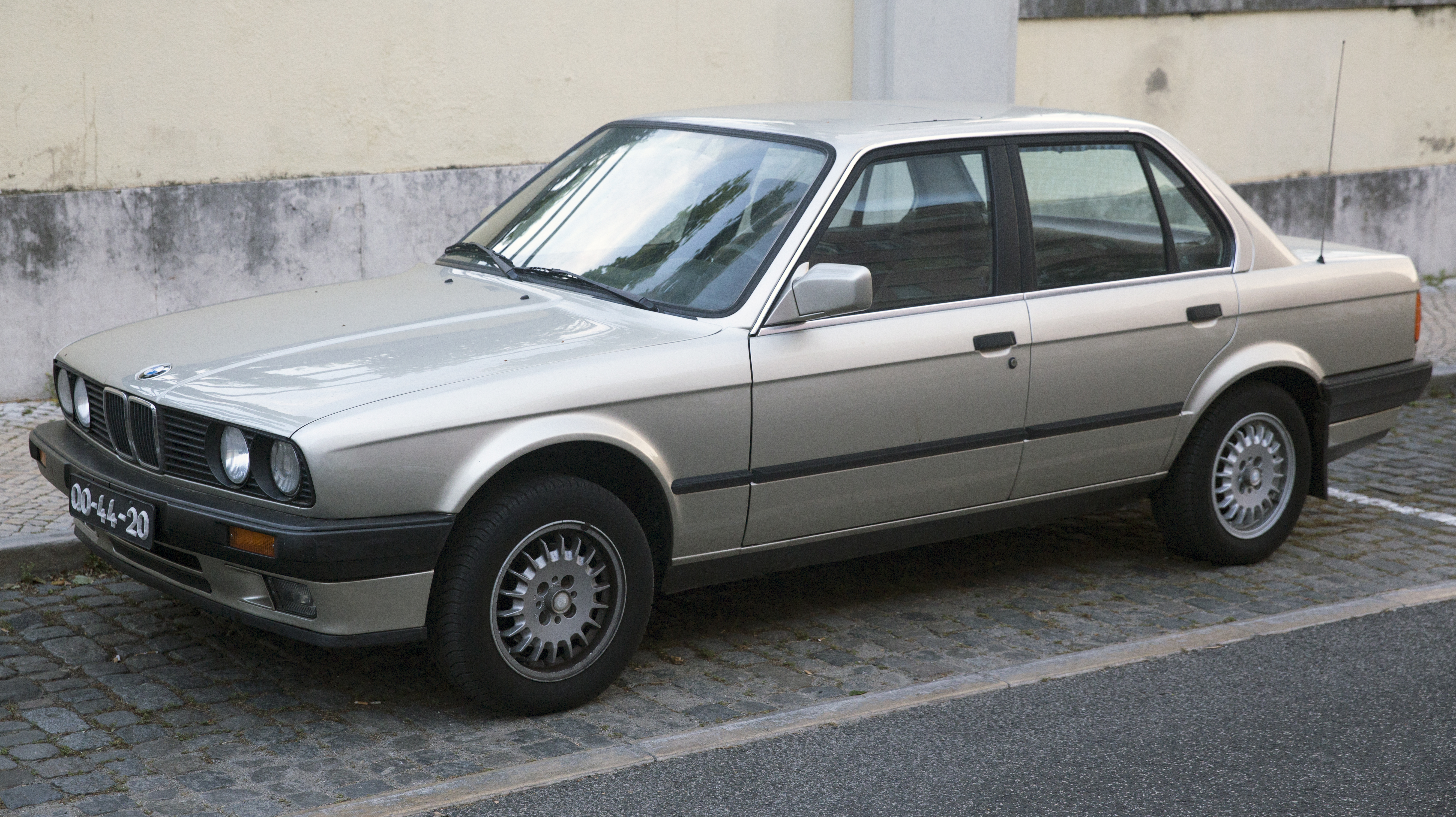 A 1988 BMW 318i four-door in Lisbon, Portugal. Lots of E30 pictures here already, but this was such a nice example and I love the old Portuguese license plates. 113 PS M40 engine, built 9 February 1988. Equipment includes: (199) Equipment For Leaded Fuel, (233) Increased Towing Capacity, (311) Star-spoke 69 Brillant alloys, (350) chrome exhaust, (400) manual sunroof, (823) Hot Climate Version, (850) Add Fuel Tank Filling For Export (?).WBAAJ510803097859